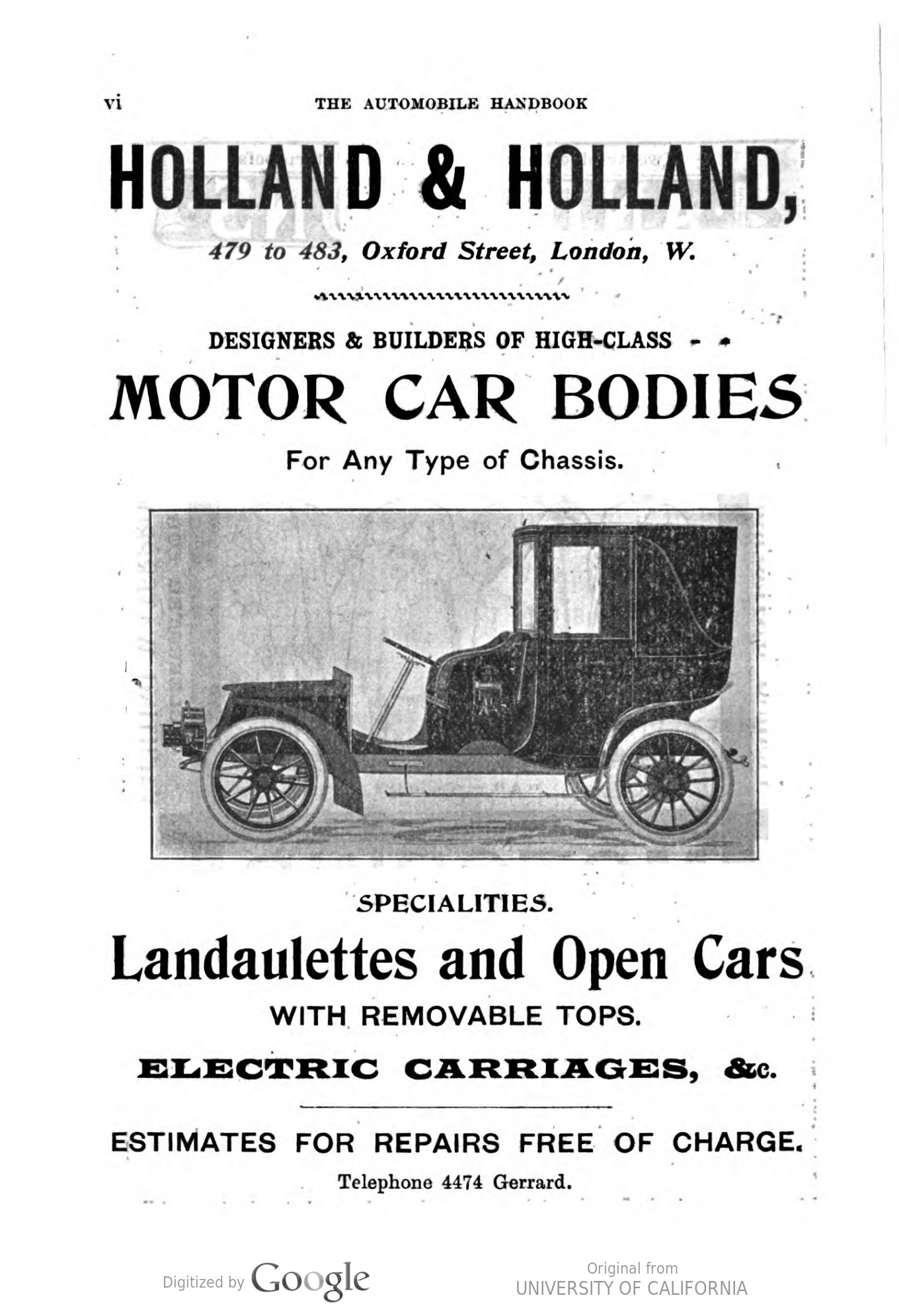 Holland & Holland advertisement 1904